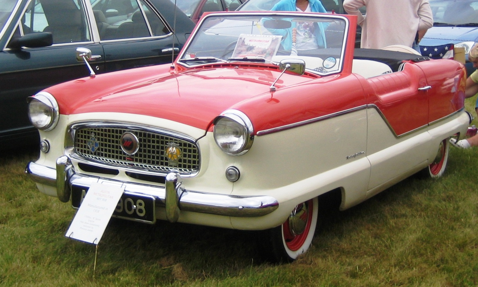 Austin Metropolitan from ca 1959 in a field in Essex